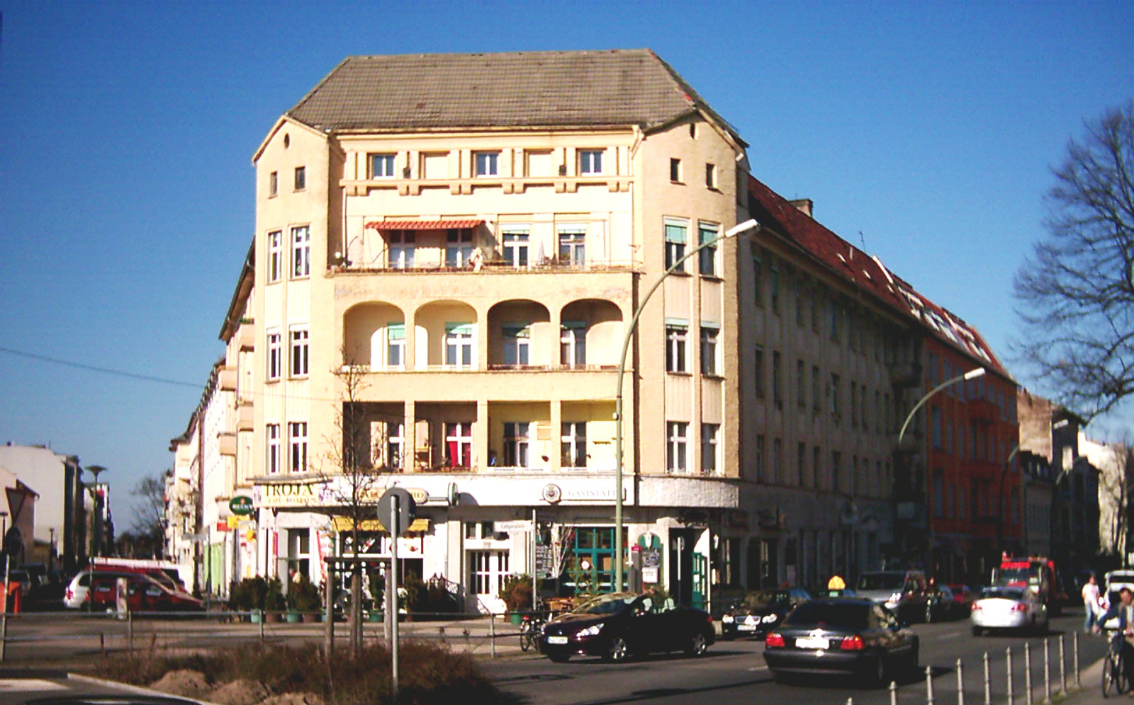 A point of Berolinica in Berlin-Pankow, named Weißenseer Spitze